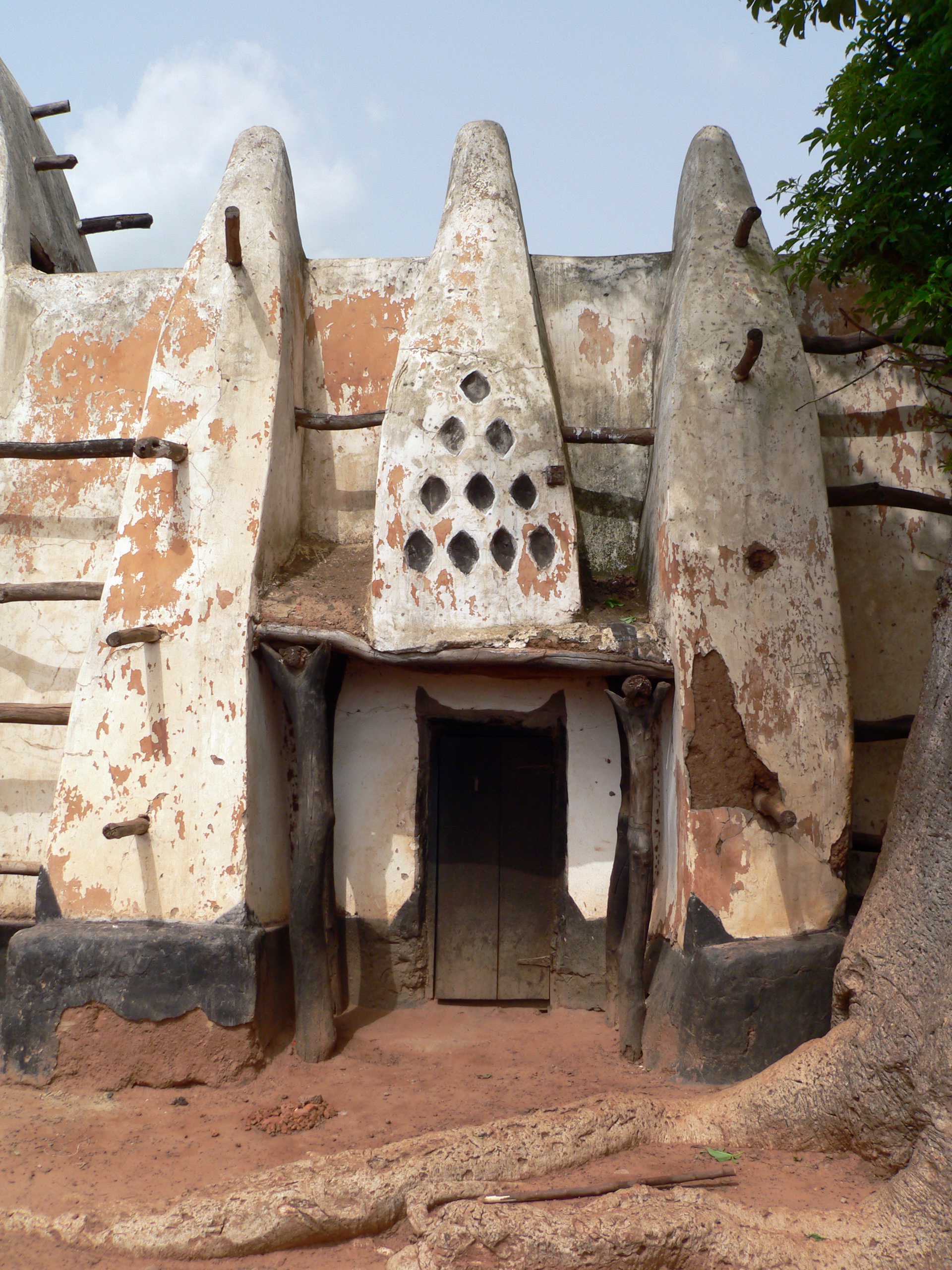 Ladies‘ entrance of the mosque in Larabanga.